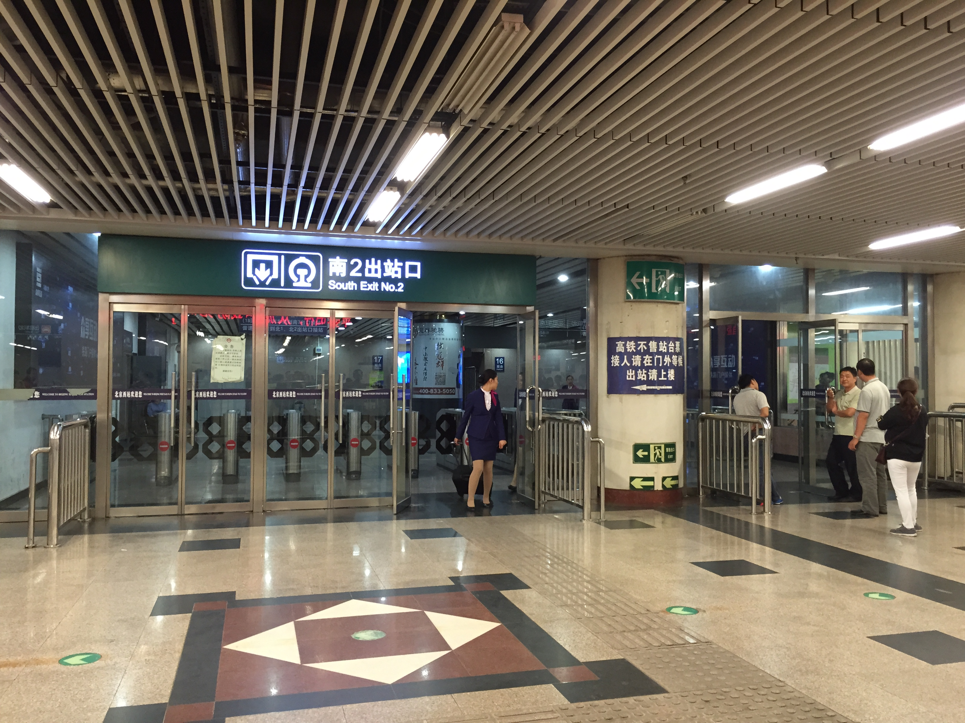 "No platform tickets for high speed railway", the board says. Passengers of D and G trains exit here.